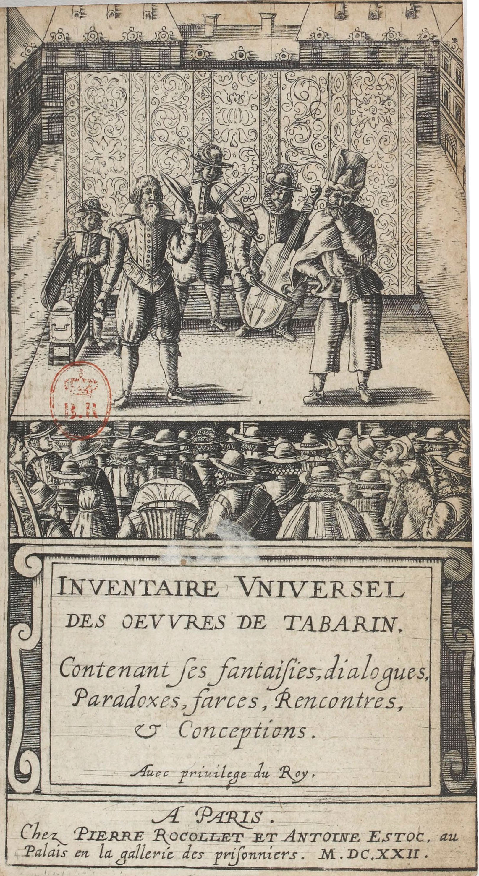 Title page to Inventaire universel des oeuvres de Tabarin, published in 1622 by the French street actor Tabarin